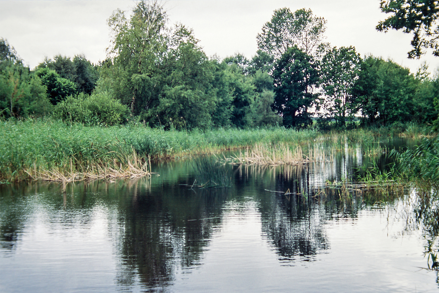 Pond near Plockhorst, district Peine, eastern Lower Saxony, Germany.